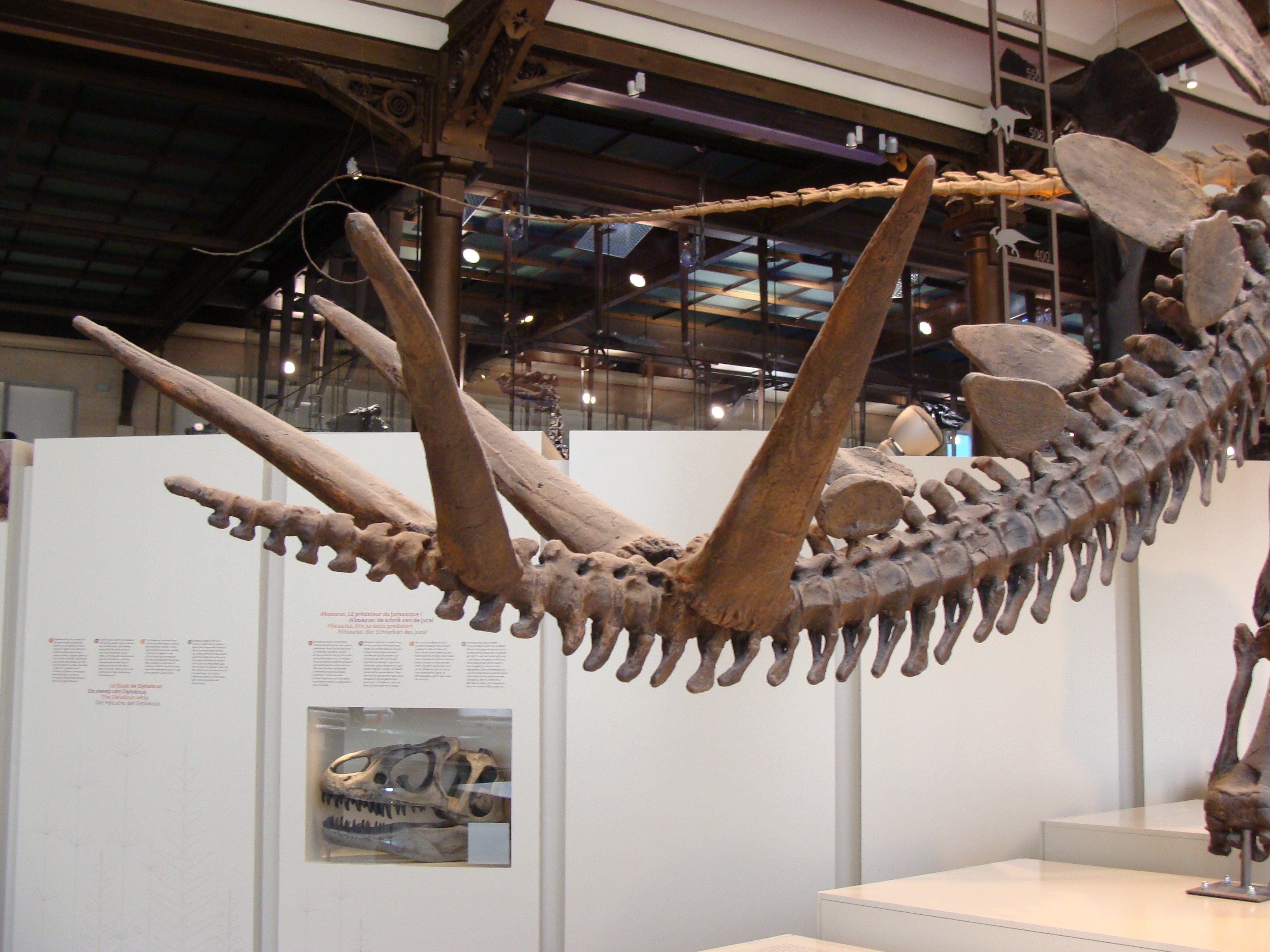 Stegosaurus tail detail, in the Royal Belgian Institute of Natural Sciences.